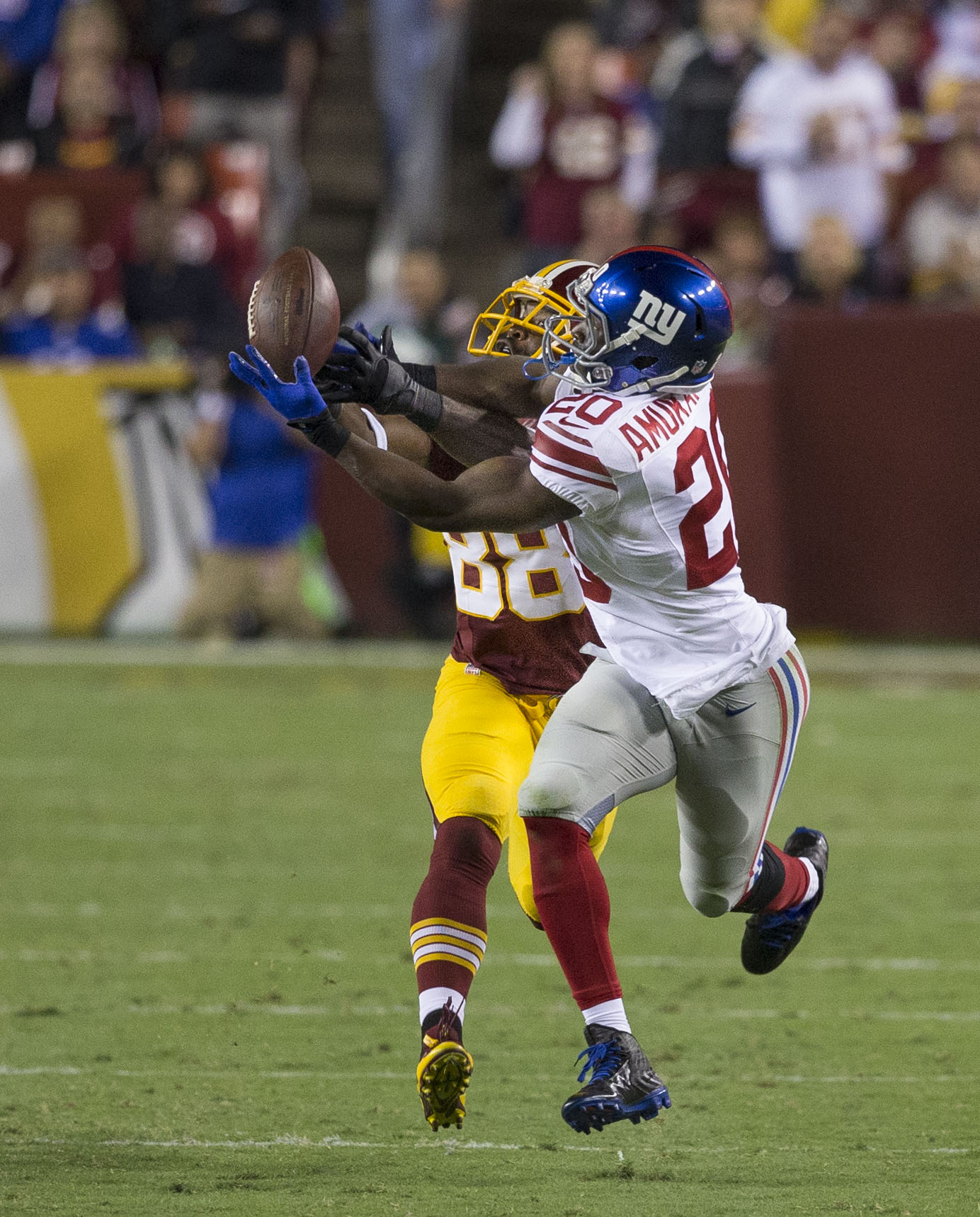 Giants at Redskins 9/25/14